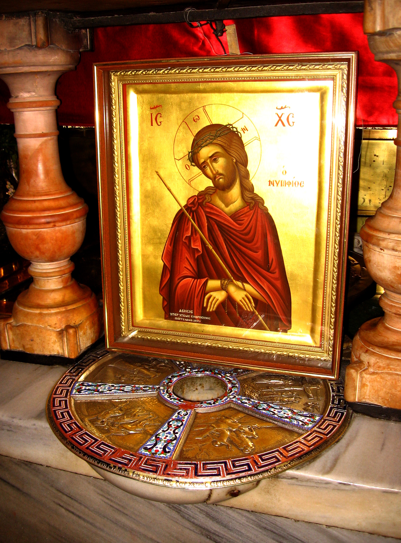 Under the Eastern Orthodox altar on Calvary (Golgotha) (now on the right after the main entrance in the Church of the Holy Sepulchre, Jerusalem) there is the place where it is believed Jesus died on the cross.